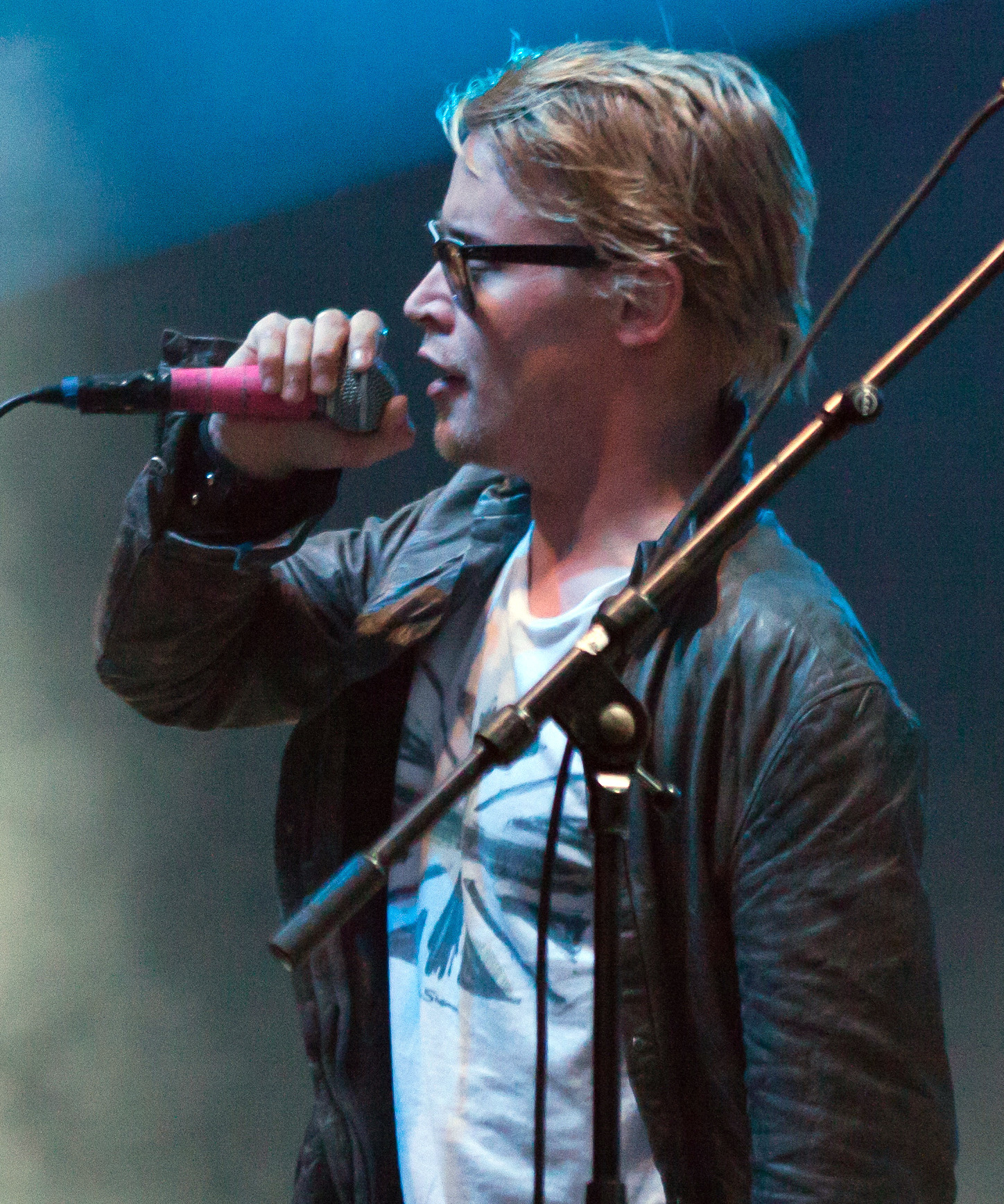 Macaulay Culkin at Berlin Festival 2010, Tempelhof Airport.